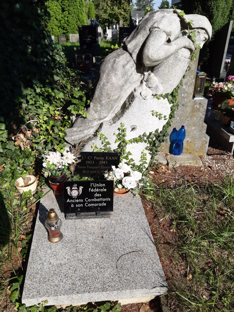 Tomb of Mr. Pierre Kaan in Cemetery of St. Otýlie, České Budějovice, Czech Republic - GPS coordinates (48 ° 59'57.1 "N 14 ° 29'01.1" E 48.999202, 14.483647)